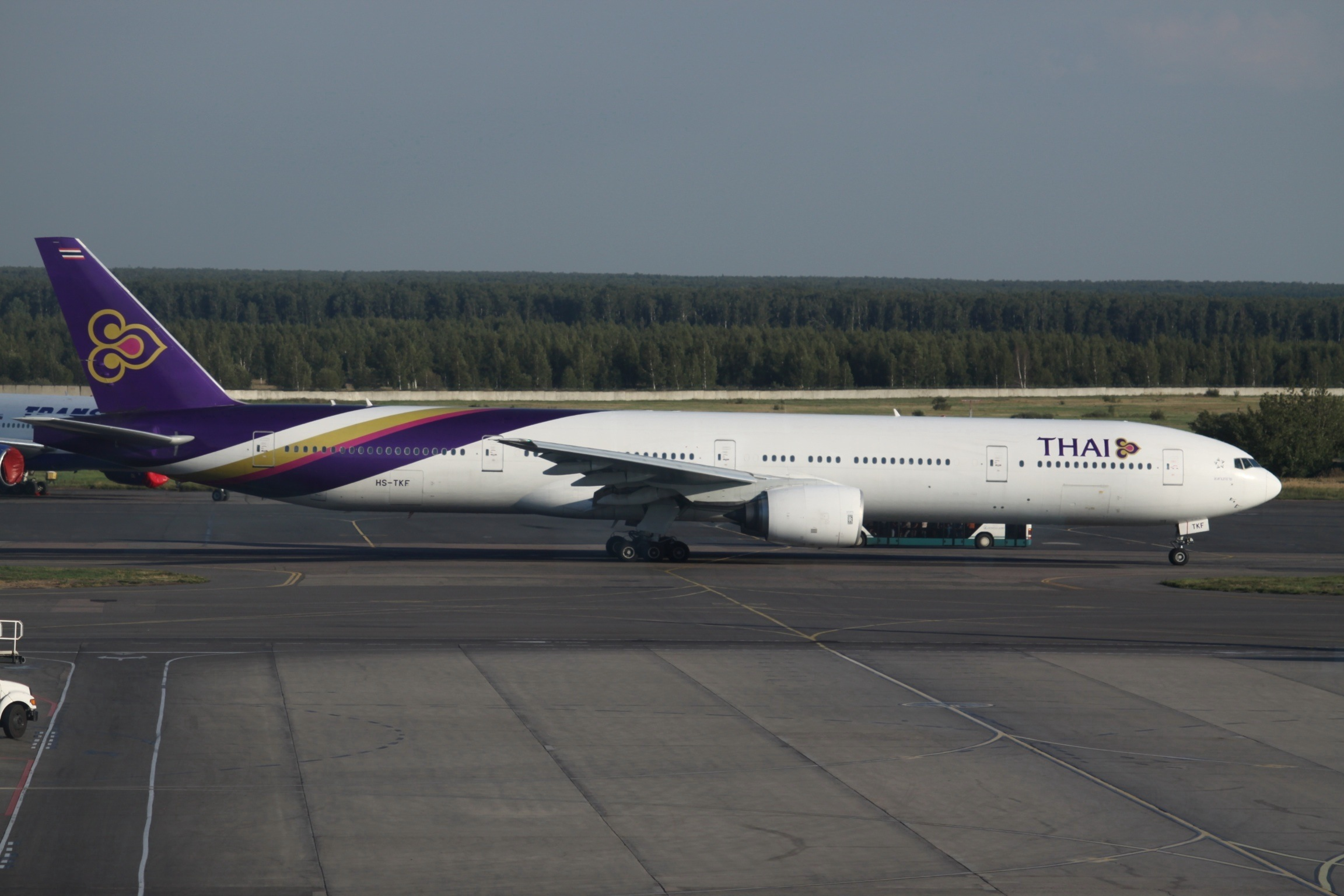 At Moscow Domodedovo